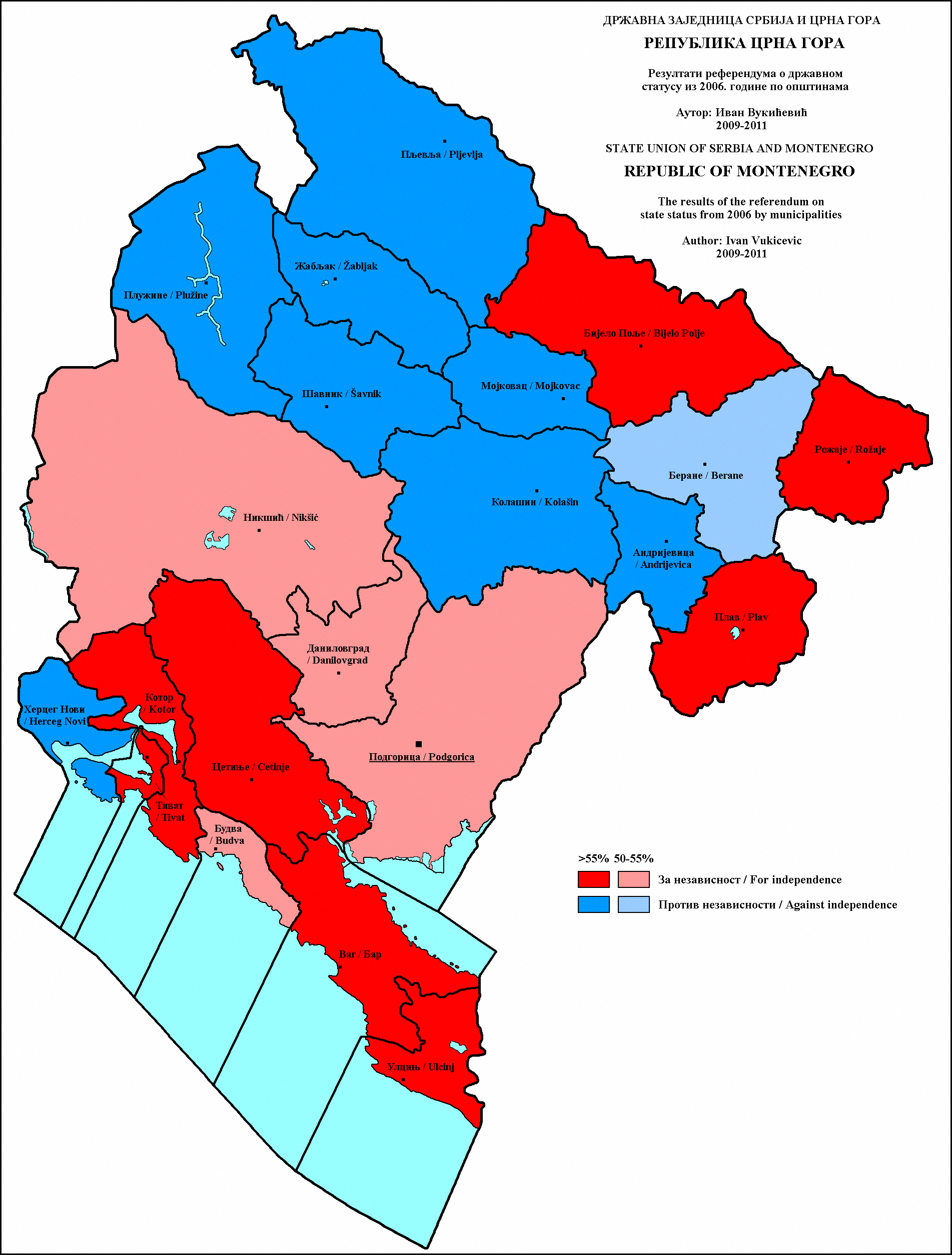 The results of the referendum on state status of Montenegro from 2006 by municipalities. Authoɾ: Ivan Vukicevic